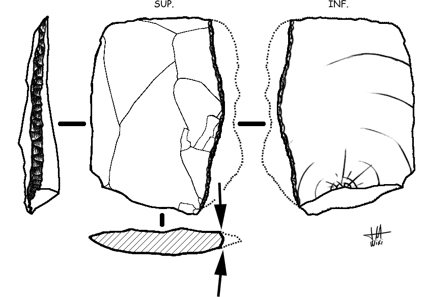 Crossed removals for retouch